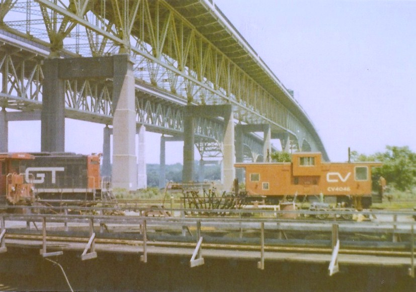 GT locomotive and CV caboose, on the Central Vermont Railroad Pier in New London, Connecticut.